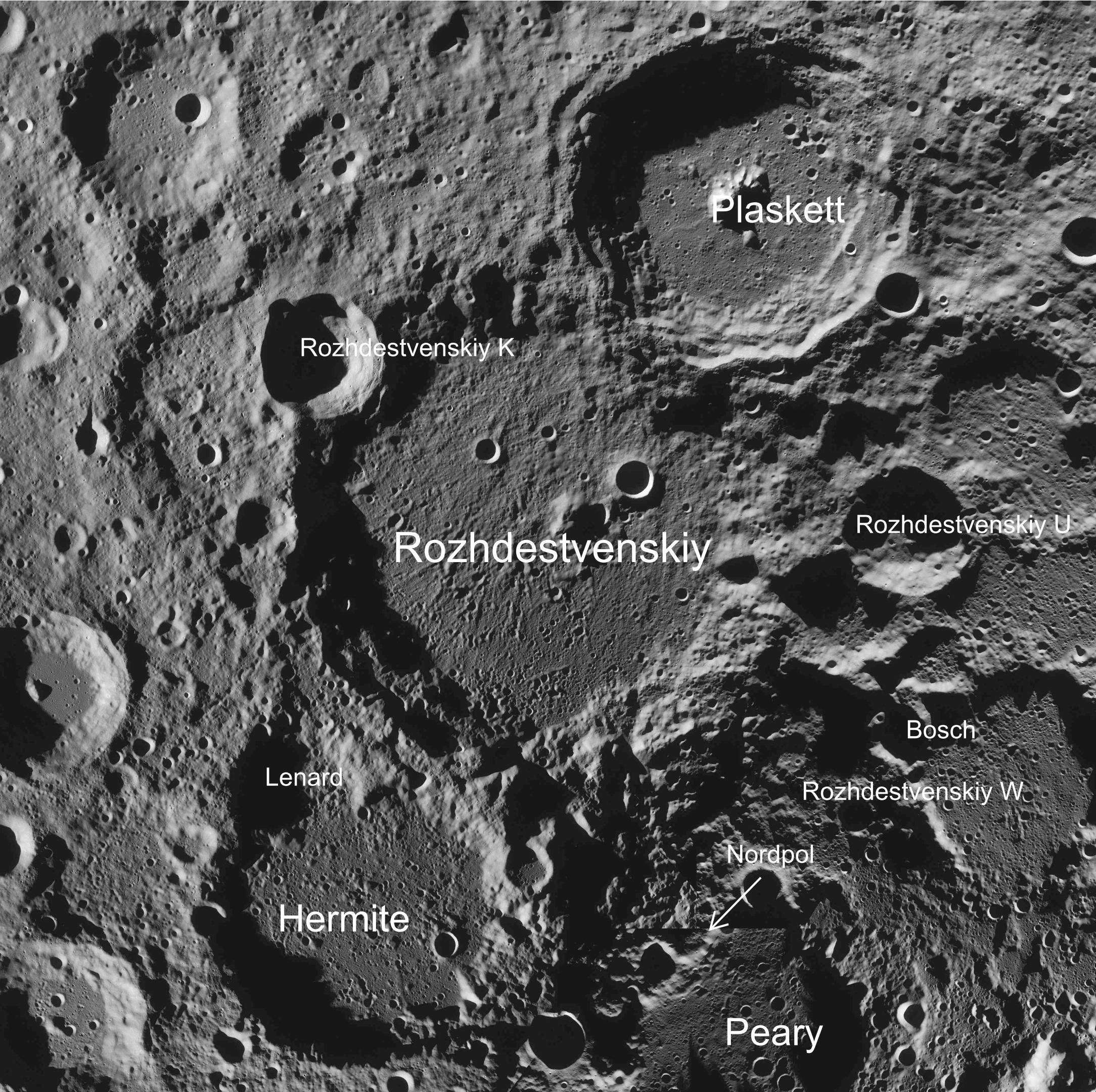 Moon crater Rozhdestvenskiy, crater Plaskett at upper right, crater Hermite at lower left, north pole at lower right (detail of LRO - WAC north pole mosaic)